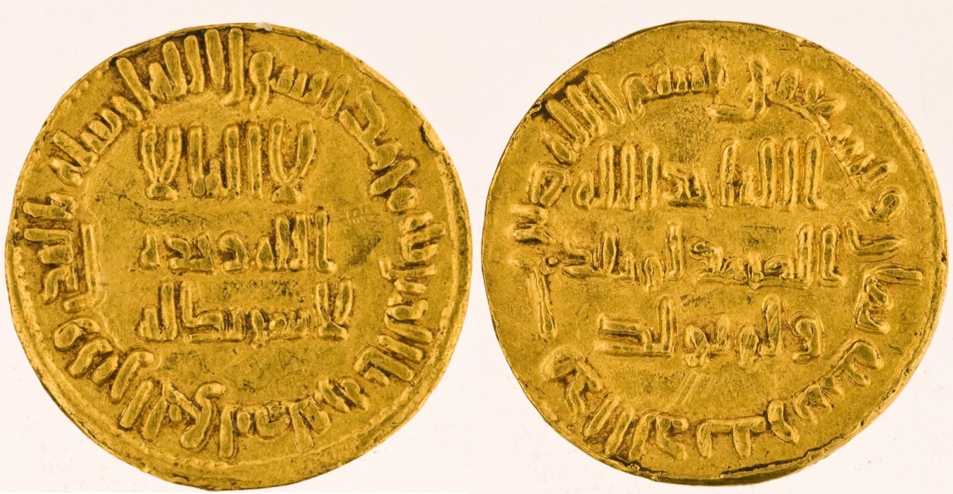 Obverse of a gold dinar minted in the name of the Umayyad caliph Sulaymān ibn Abd al-Malik in Damascus, in 716/717